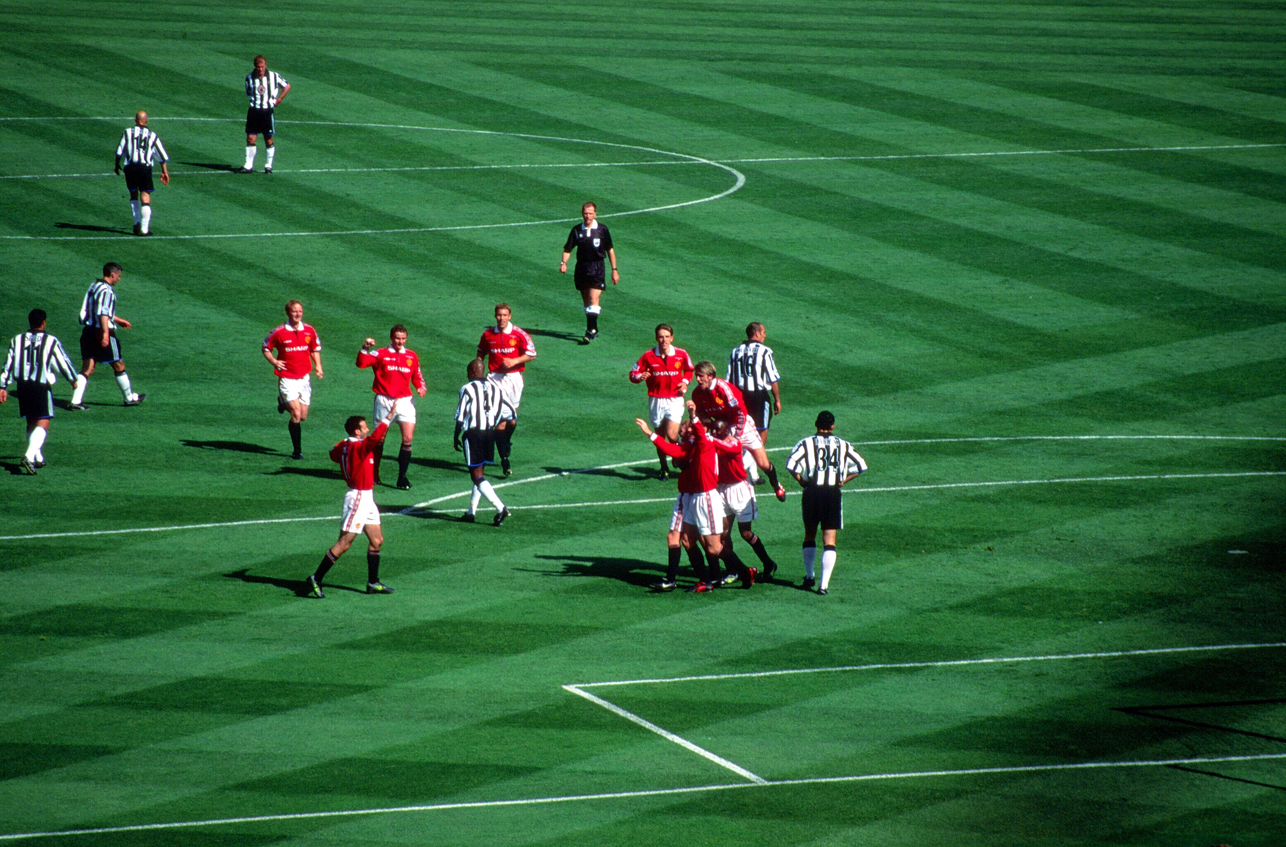 Manchester United's players celebrate their second goal by Paul Scholes in the 1999 FA Cup Final against Newcastle United at Wembley Stadium on 22 May 1999.